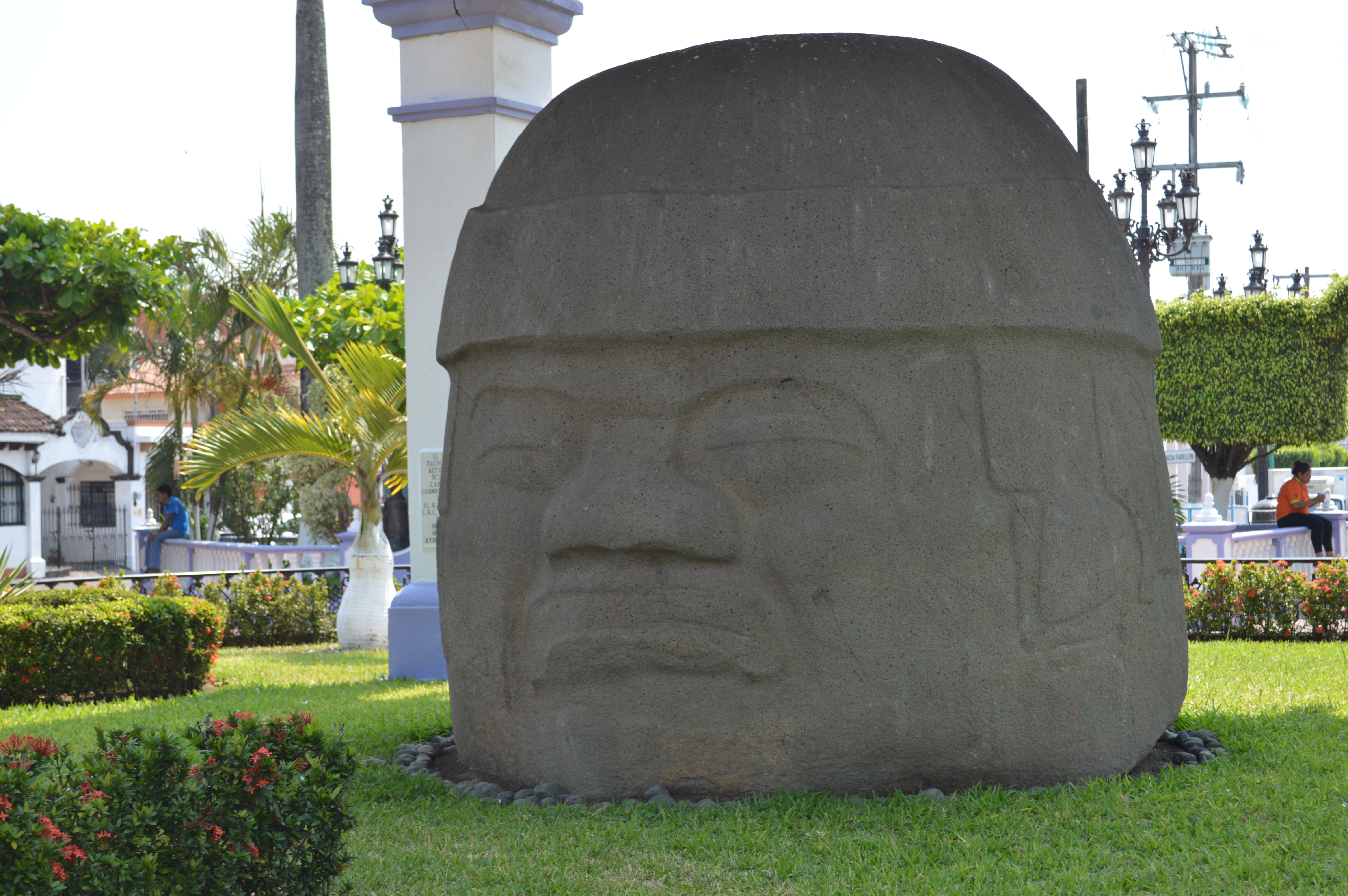 The La Corbata colossal head in the main square of Santiago Tuxtla, Veracruz, Mexico